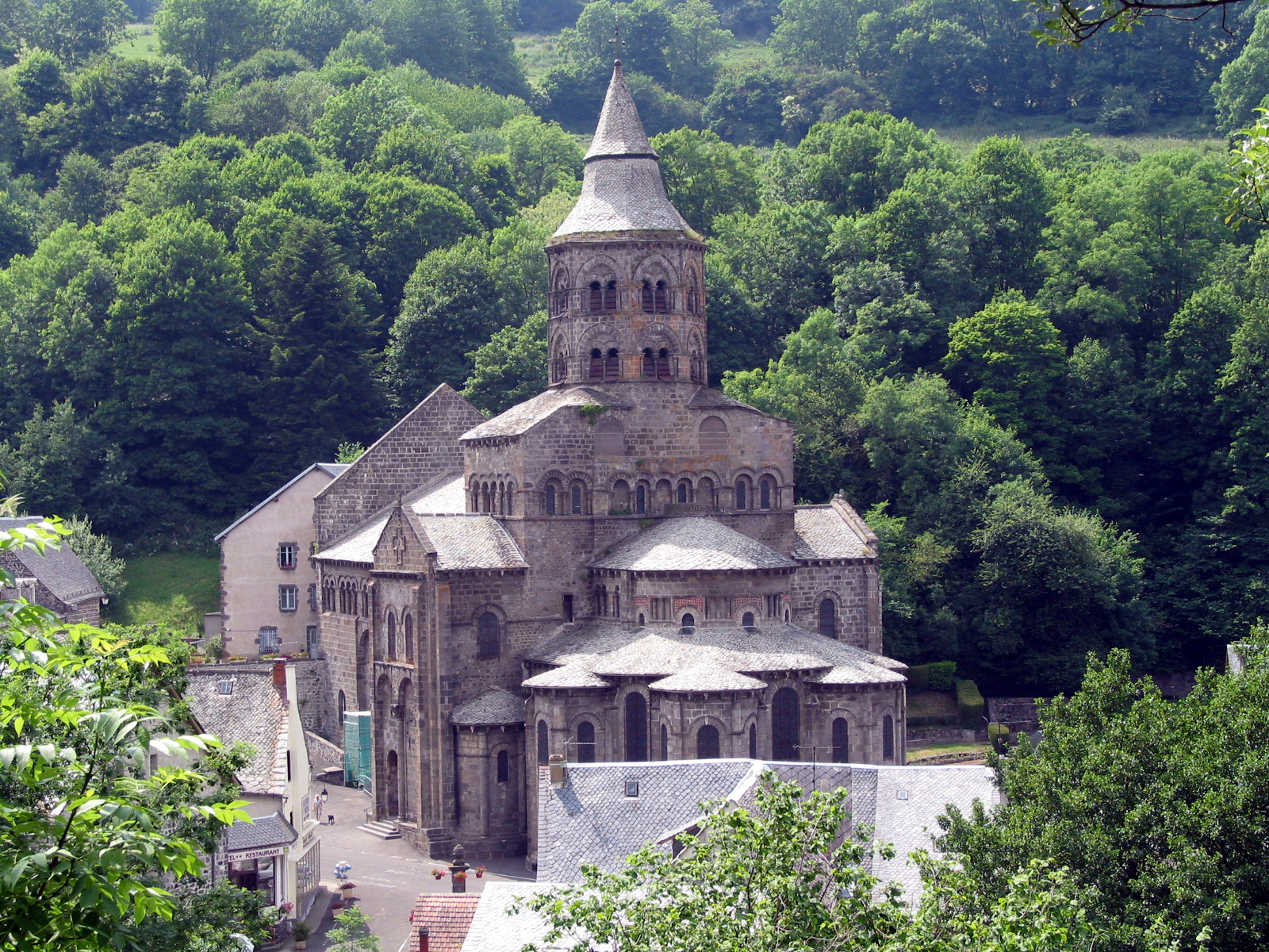 Orcival (Puy-de-Dôme - France), the village and the Our Lady basilica (XIIh century).